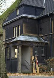 The picture shows the "Atelierhaus Westfalenhütte" in Dortmund.